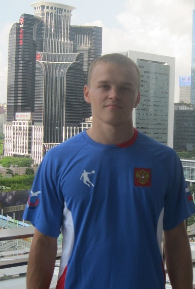 Chess Grangmaster